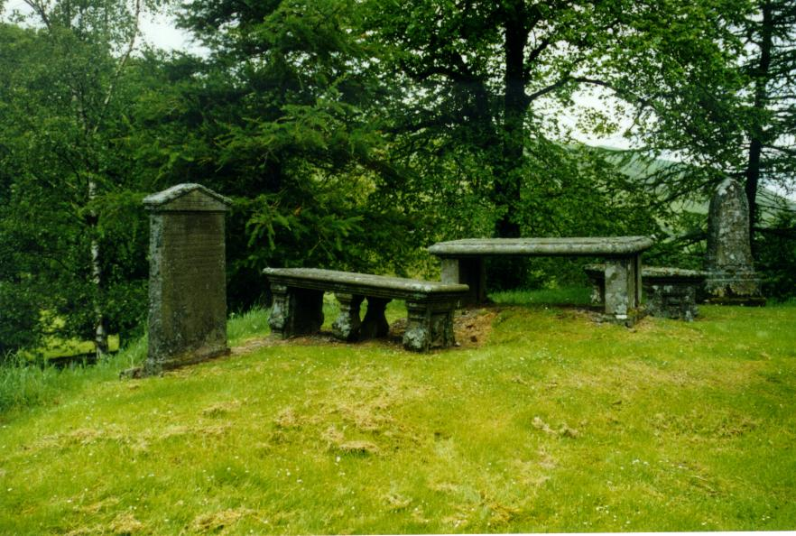 Tweedie grave stones at Tweedsmuir